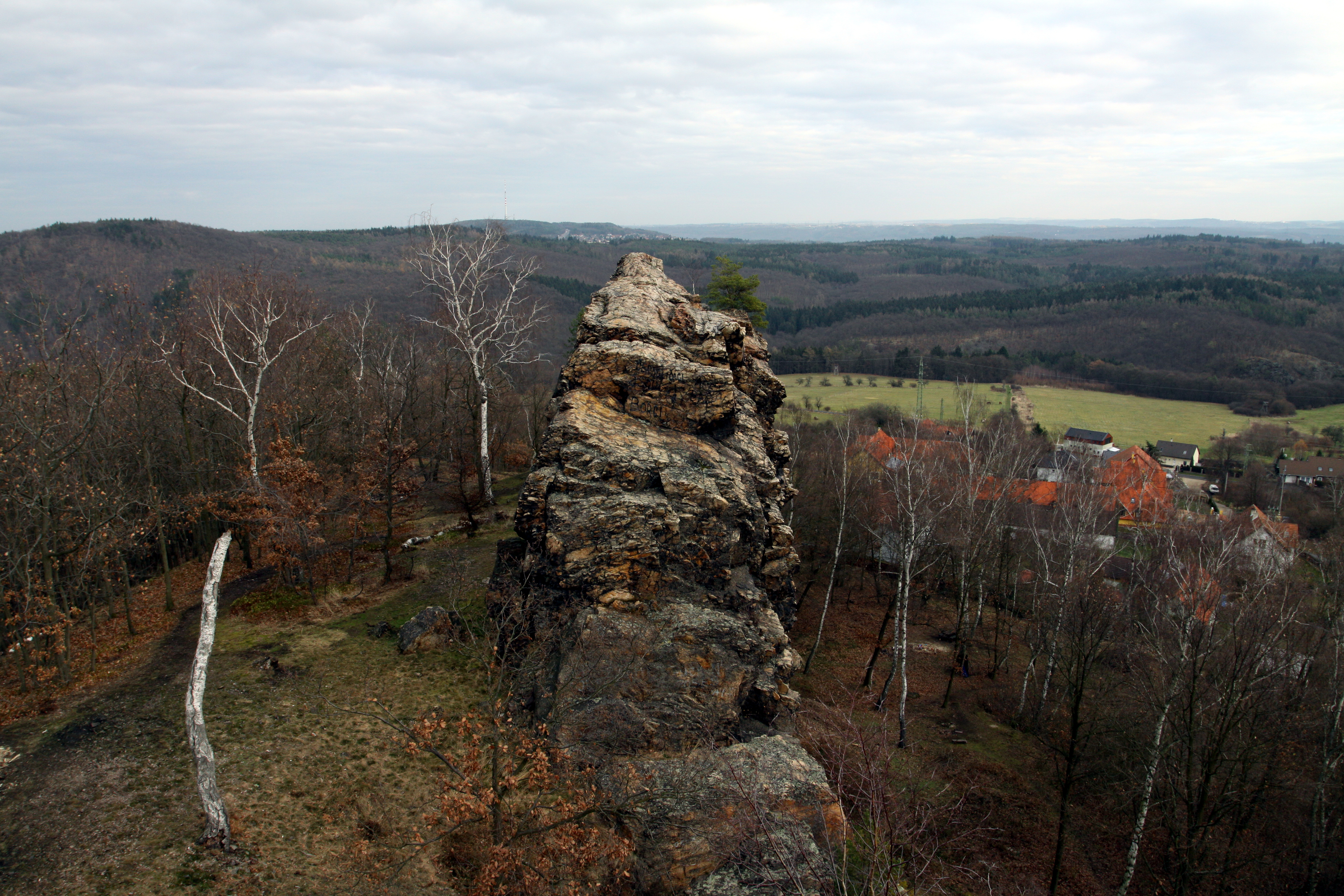 Natural monument Černolické skály near Černolice village in Prague-West District, Czech Republic